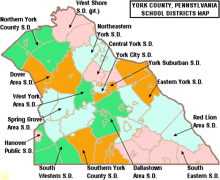 Map of York County, Pennsylvania, United States Public School Districts